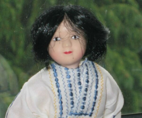 The head of a china doll, supposed to look Japanese.